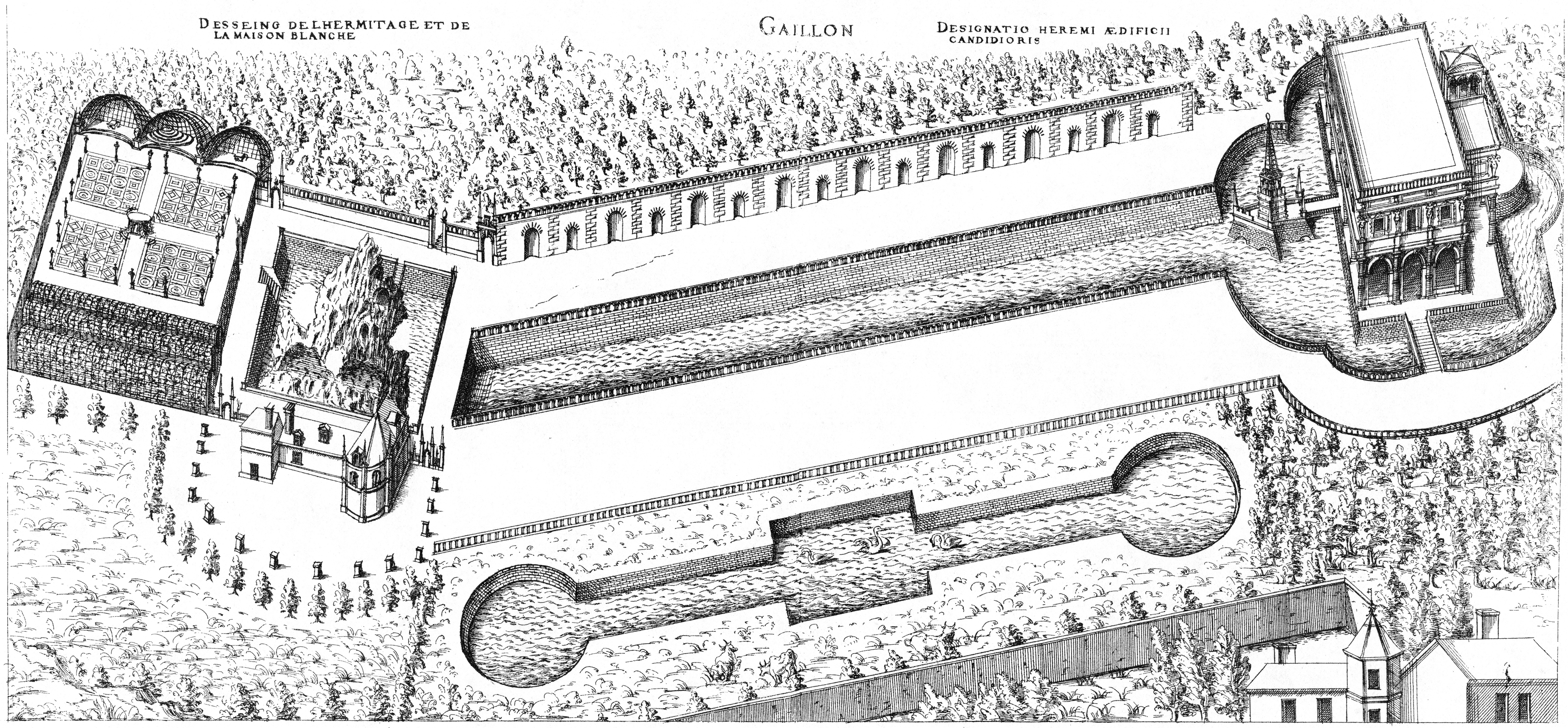 Engraving from Le premier volume des plus excellents Bastiments de France by Jacques I Androuet du Cerceau. Bird's-eye view of the Hermitage and the Maison Blanche of the Château de Gaillon